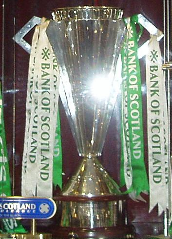 The Scottish Premier League championship trophy Cropped from File:Celtic FC trophy case.JPG